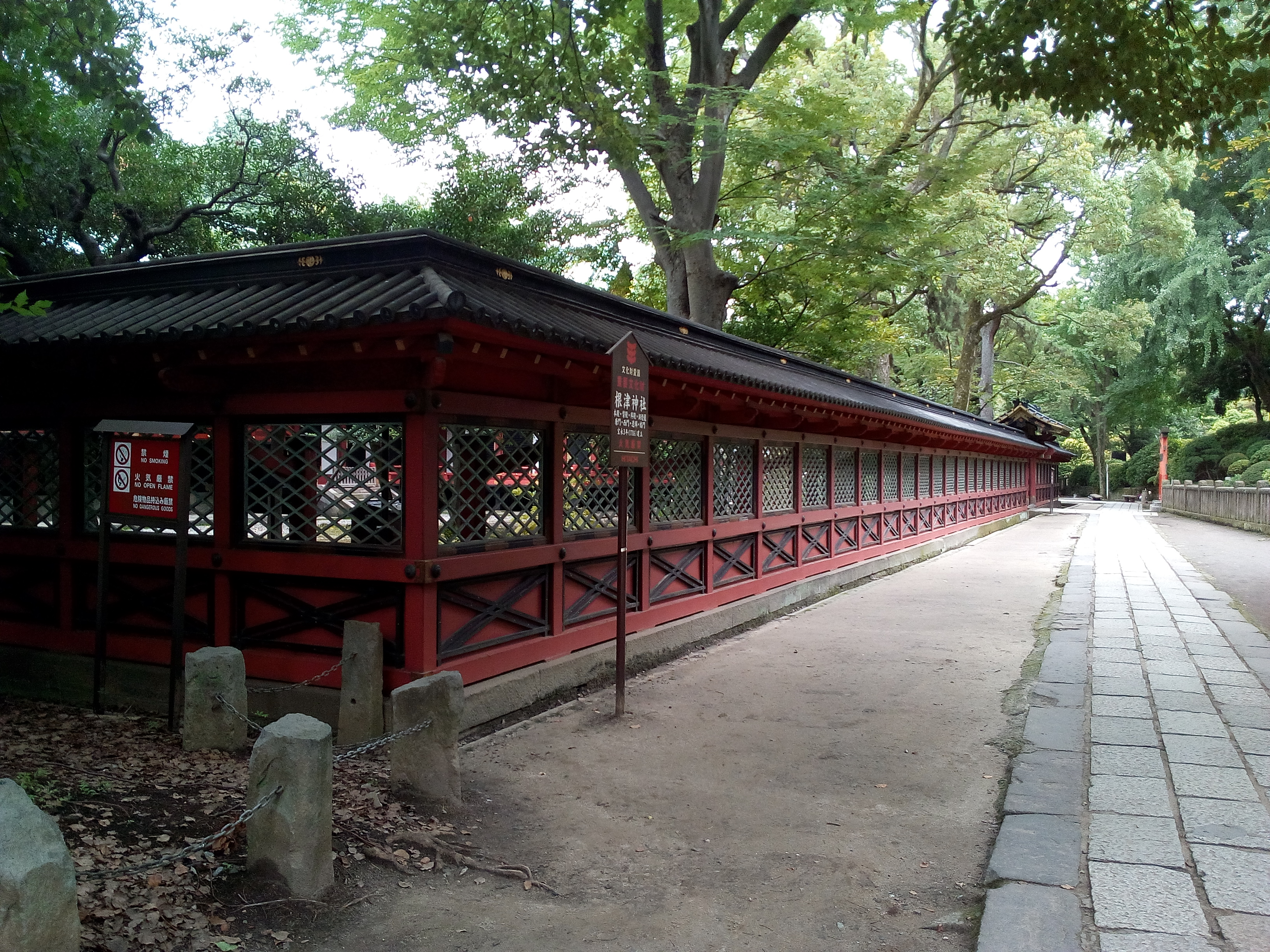 Sukibei wall at Nezu shrine